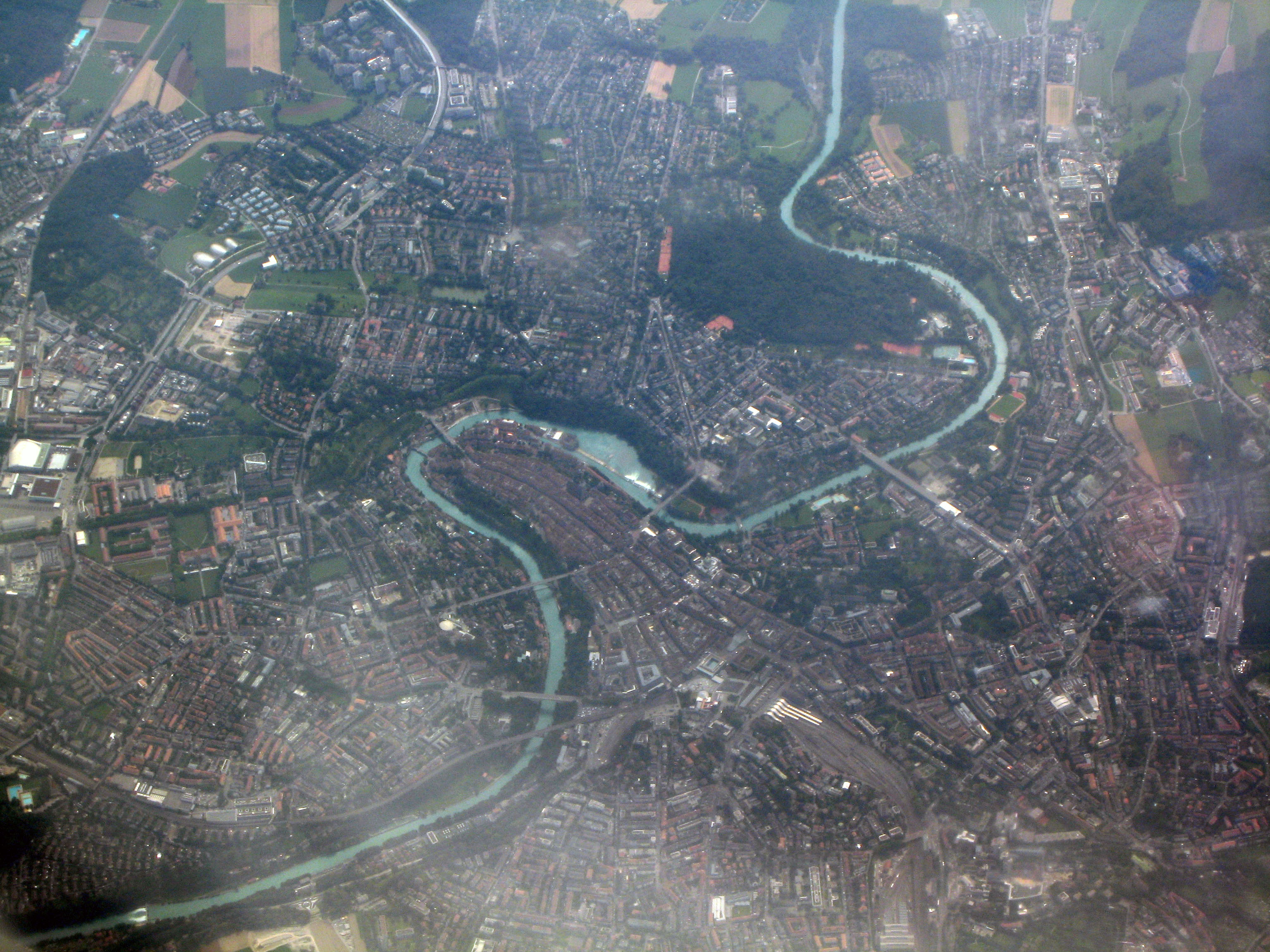 Aerial photograph of the city center of Bern, Switzerland, facing southwest.